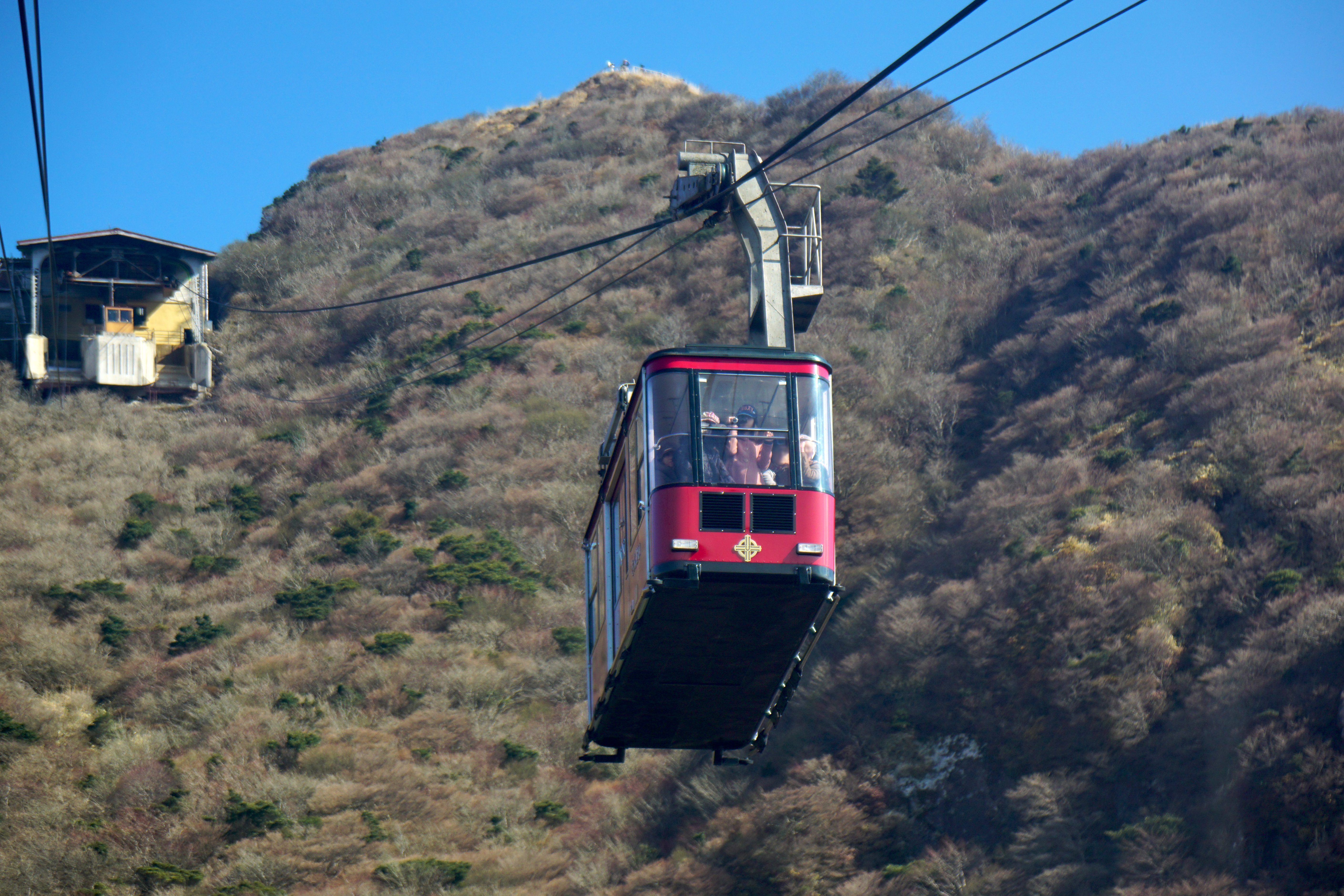 Unzen Ropeway at Unzen volcanic complex in Unzen City, Nagasaki prefecture, Japan.